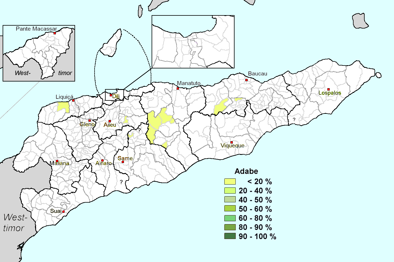 Percentage of people using Adabe as mother tongue in sucos of East Timor (Timor-Leste), according census 2010